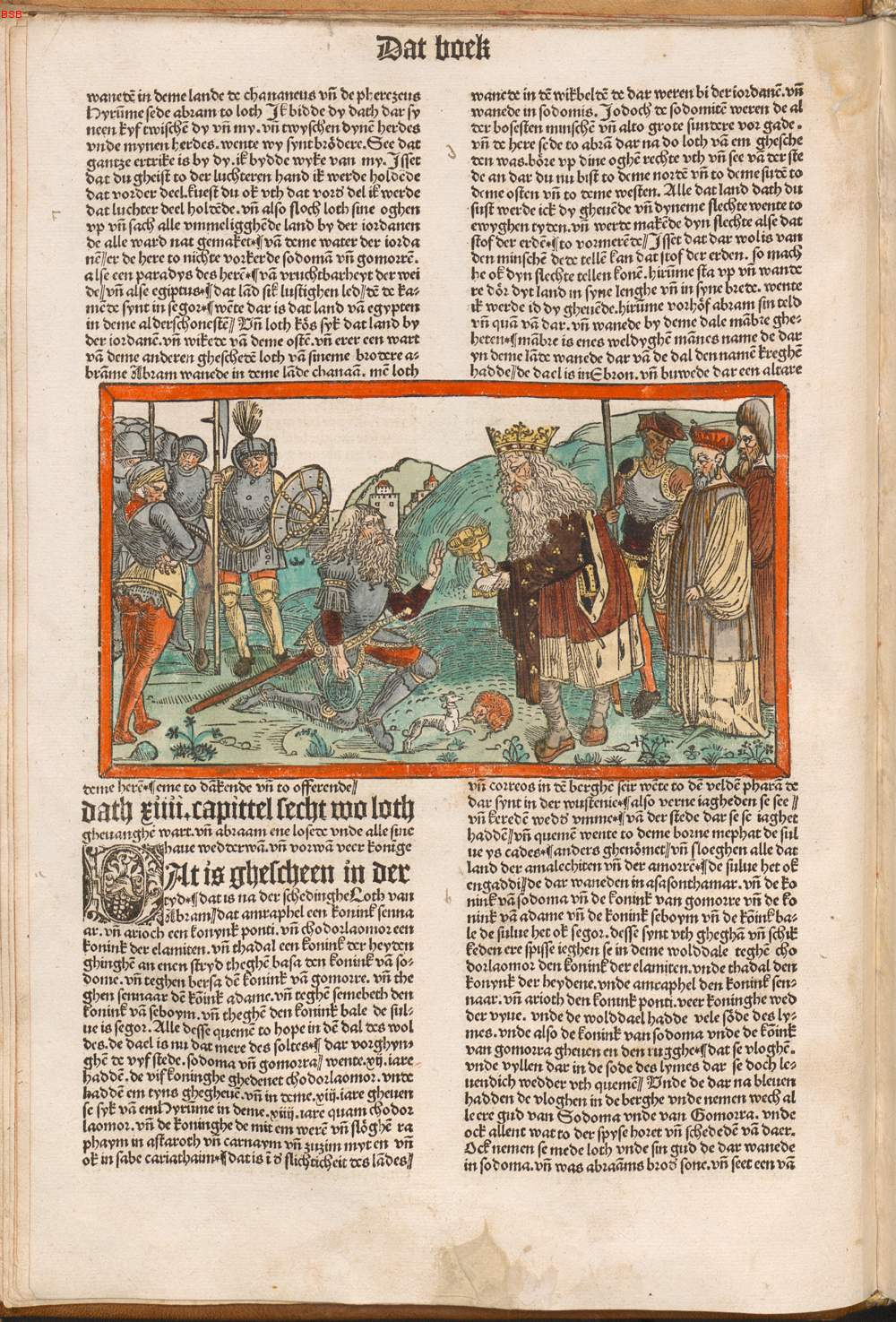 page from the Lúbeck Bible (1494) showing Genesis 12 and 13 with woodcut by Master of the Lubeck Bibel showing the encounter of Abraham and Melchisedek